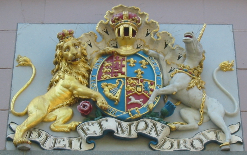 The Royal coat of arms of Great Britain of the Hanoverian period (1714 – 1801, pertaining to George II) on States Building, Saint Helier, Jersey.